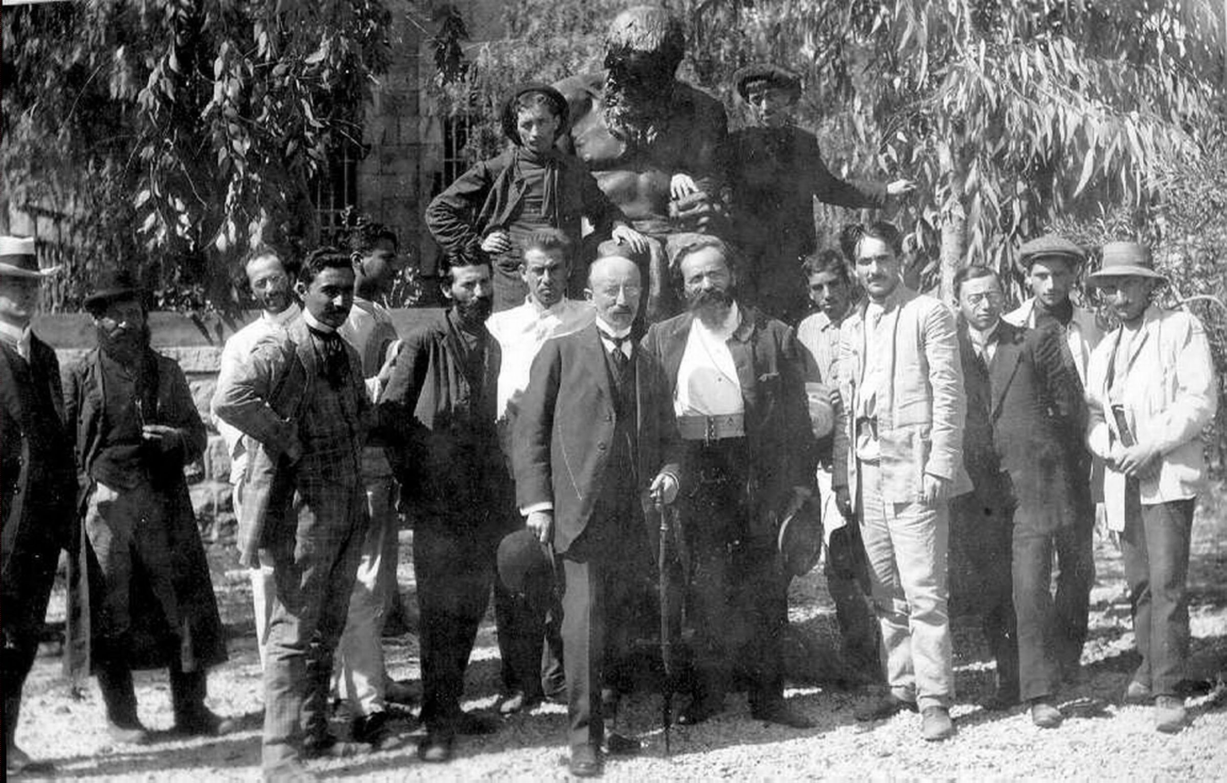 Boris Schatz, Ahad Ha'am and students from Bezalel, in the institution's garden